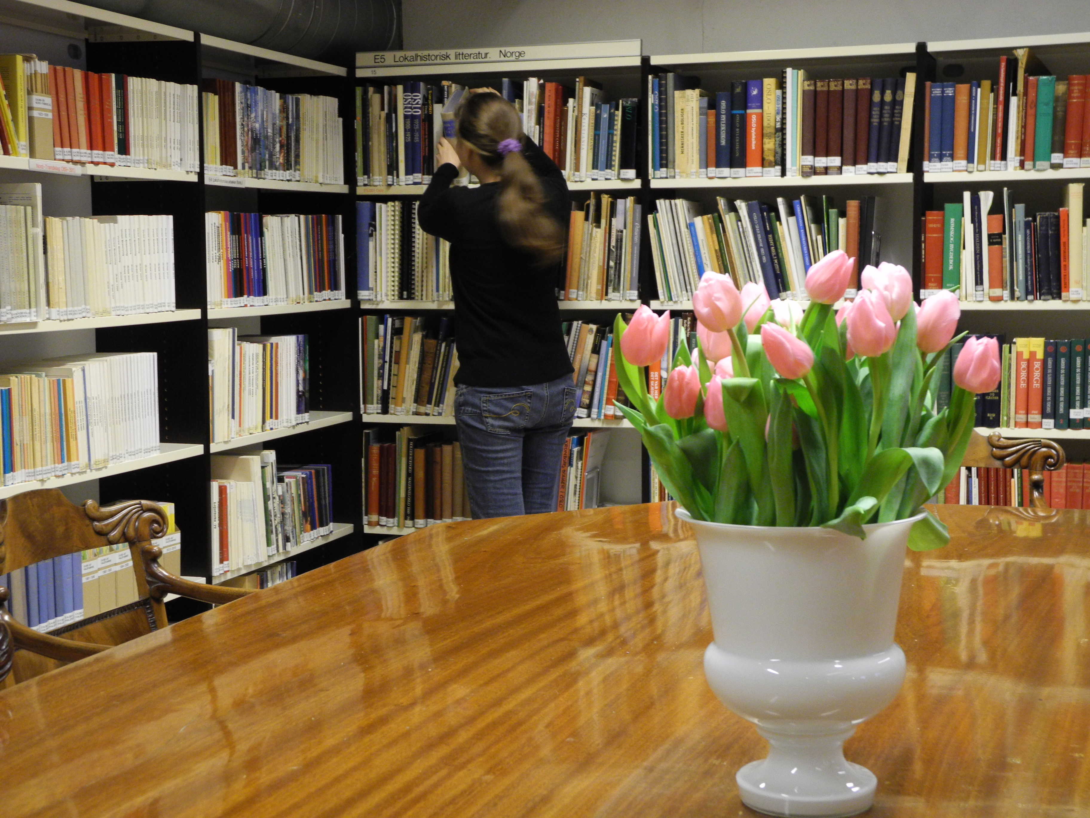 The Library at Riksantikvaren (The Directorate for Cultural Heritage)